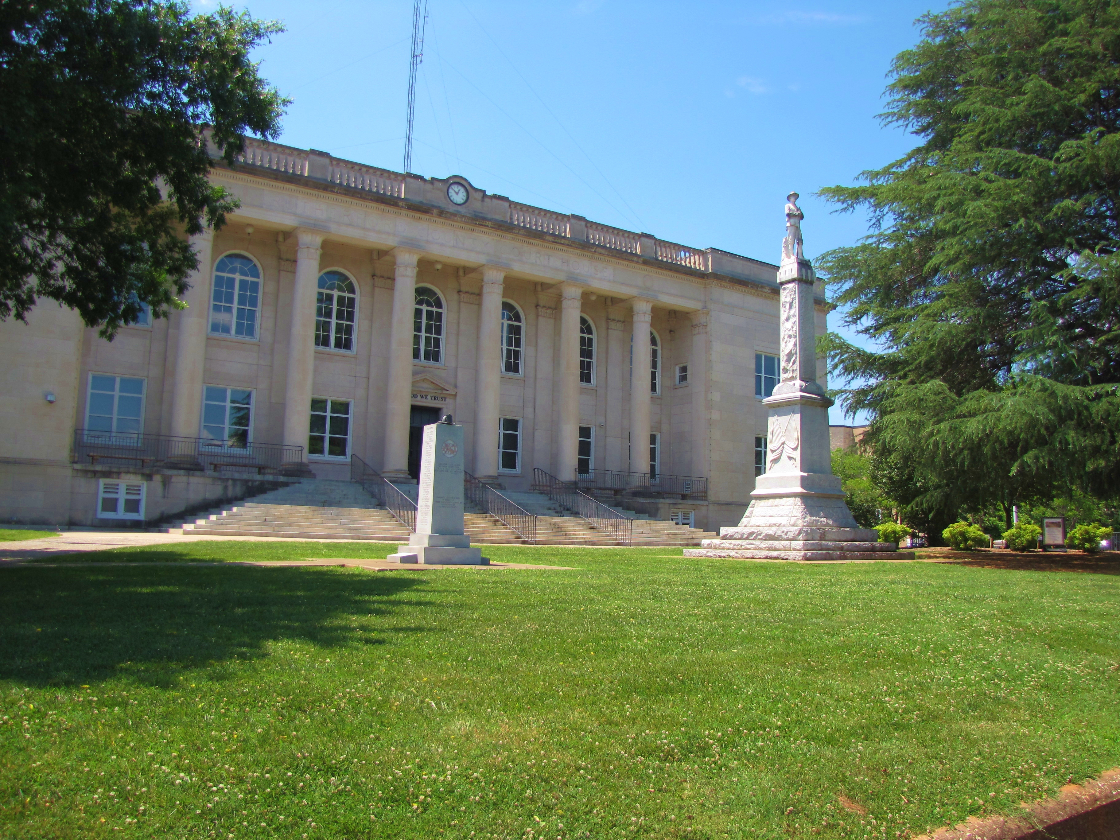 Rutherford County Courthouse, Rutherfordton, North Carolina, on North Main Street, U.S. Route 221.